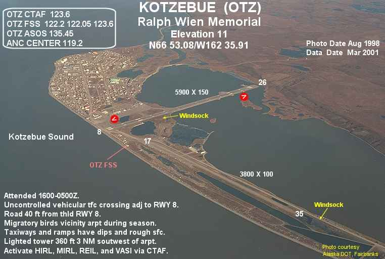 Photograph of Ralph Wien Memorial Airport (OTZ) in Kotzebue, Alaska, United States.